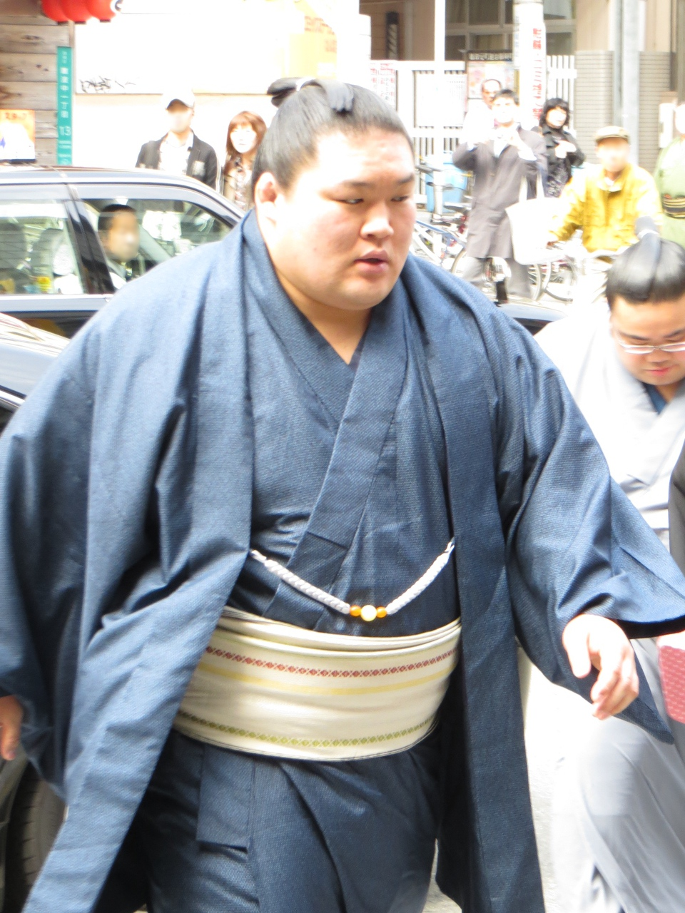 Gōeidō Gōtarō in Haru (Spring) Basho 2013, Osaka.